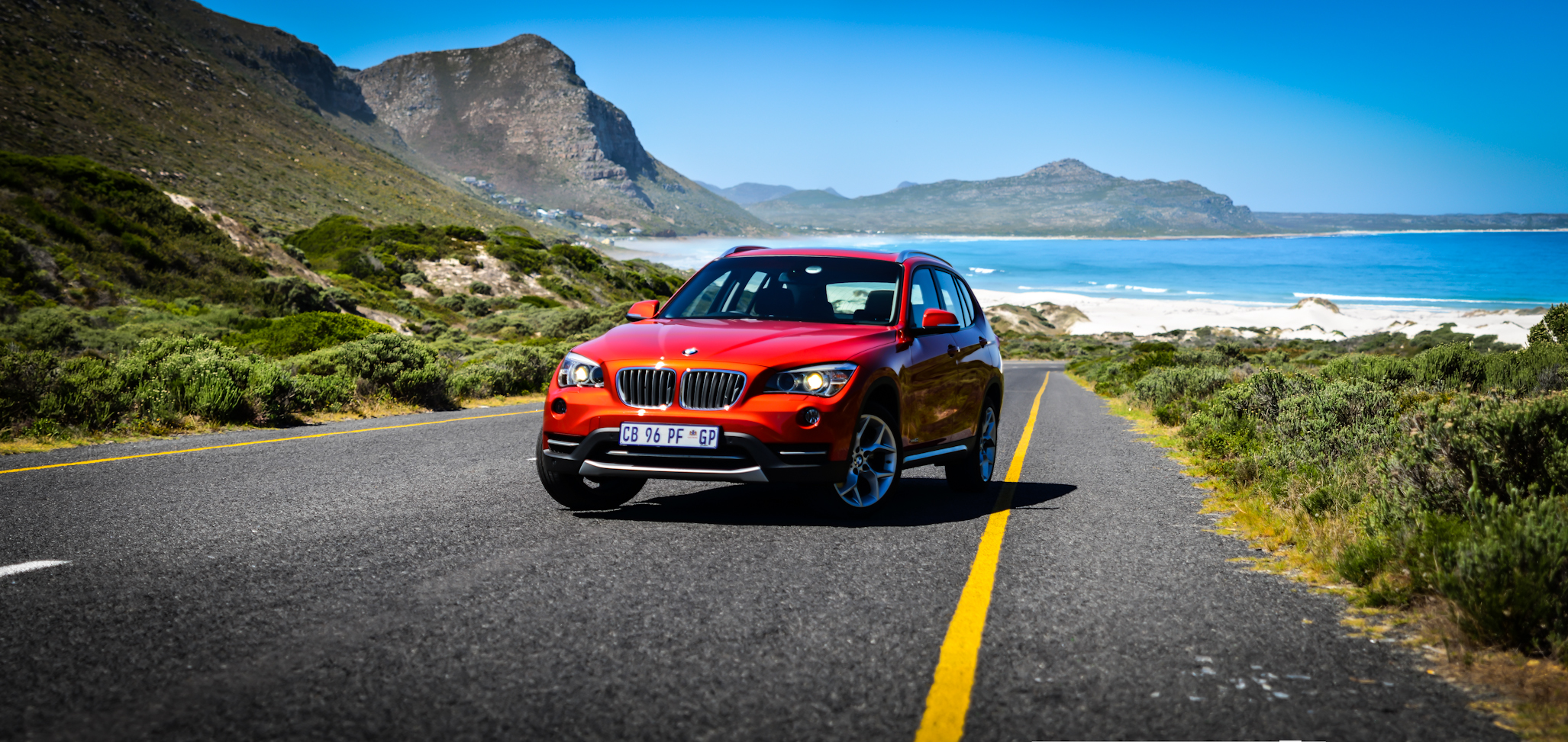 Car test on Rocking Cars